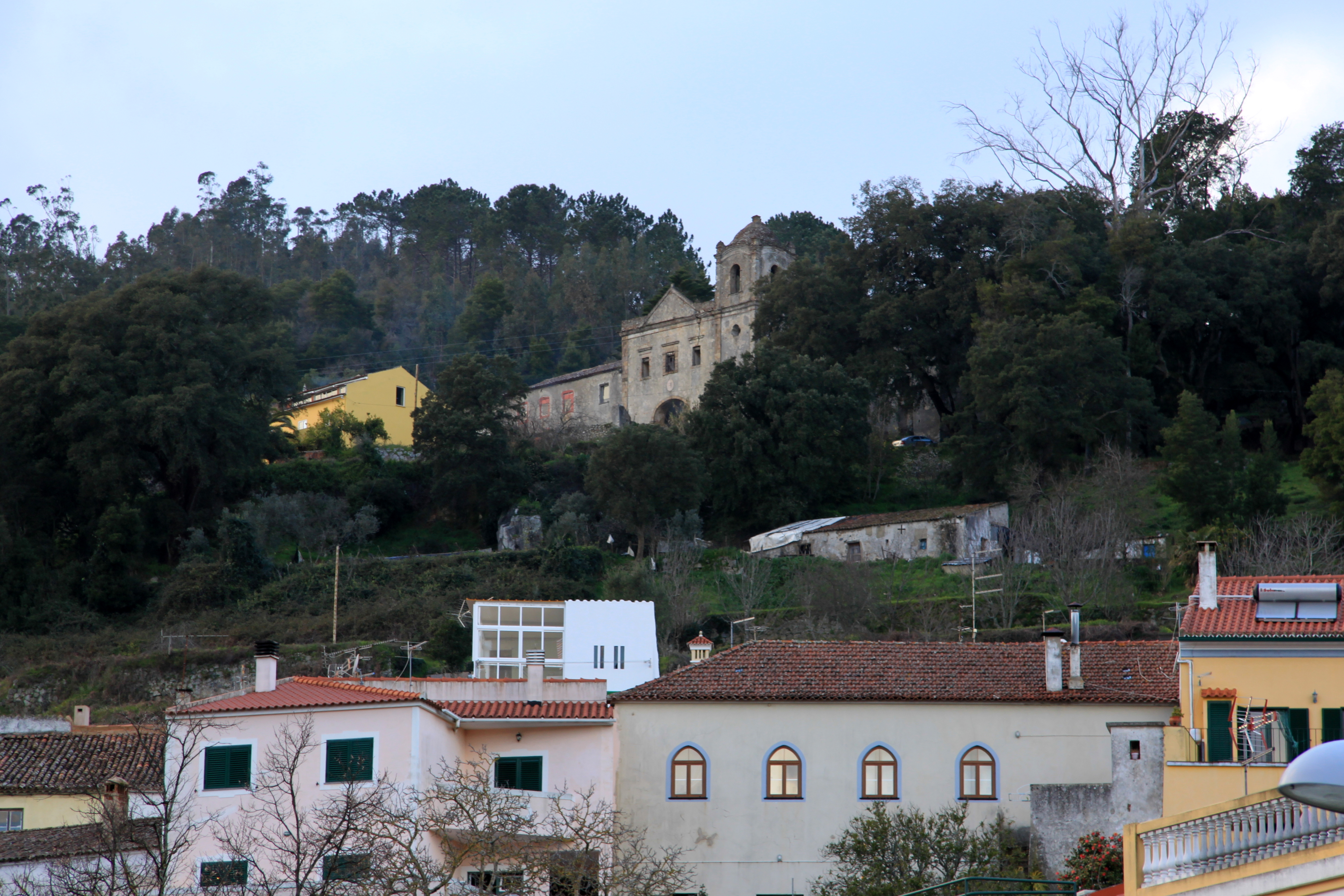 Monchique - The convent of Nossa Senhora do Desterro, Our Lady of Exile